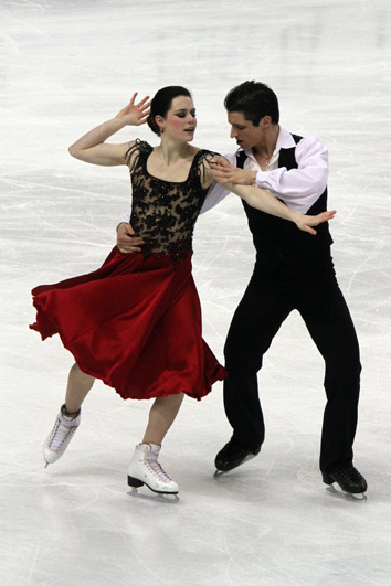 2010 World Figure Skating Championships - Tessa Virtue and Scott Moir